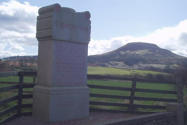 Monument marking site of Roman Fort of Trimontium in Scotland